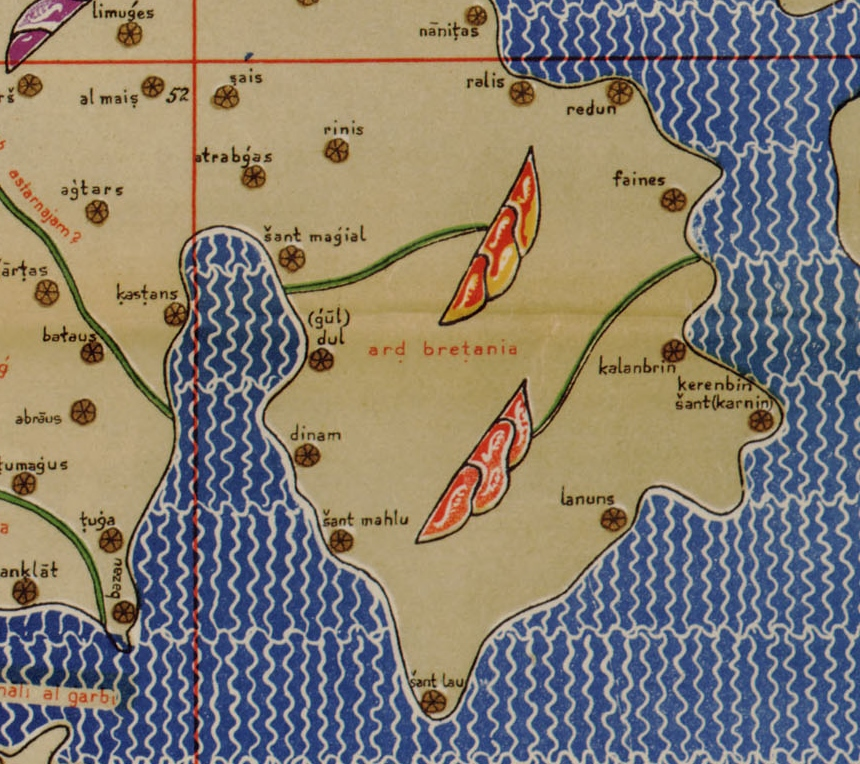 Extract of a 1929 copy by Konrad Miller of the 1154 world map made by Al-Idrissi, the Tabula Rogeriana. Originally written in Arabic script, this version uses the latin alphabet. Some place names include "ard bretania" (Britanny), "dul" (Dol de Bretagne), "dinam" (Dinan), "šant mahlu" (Saint Malo), nānițas (Nantes)